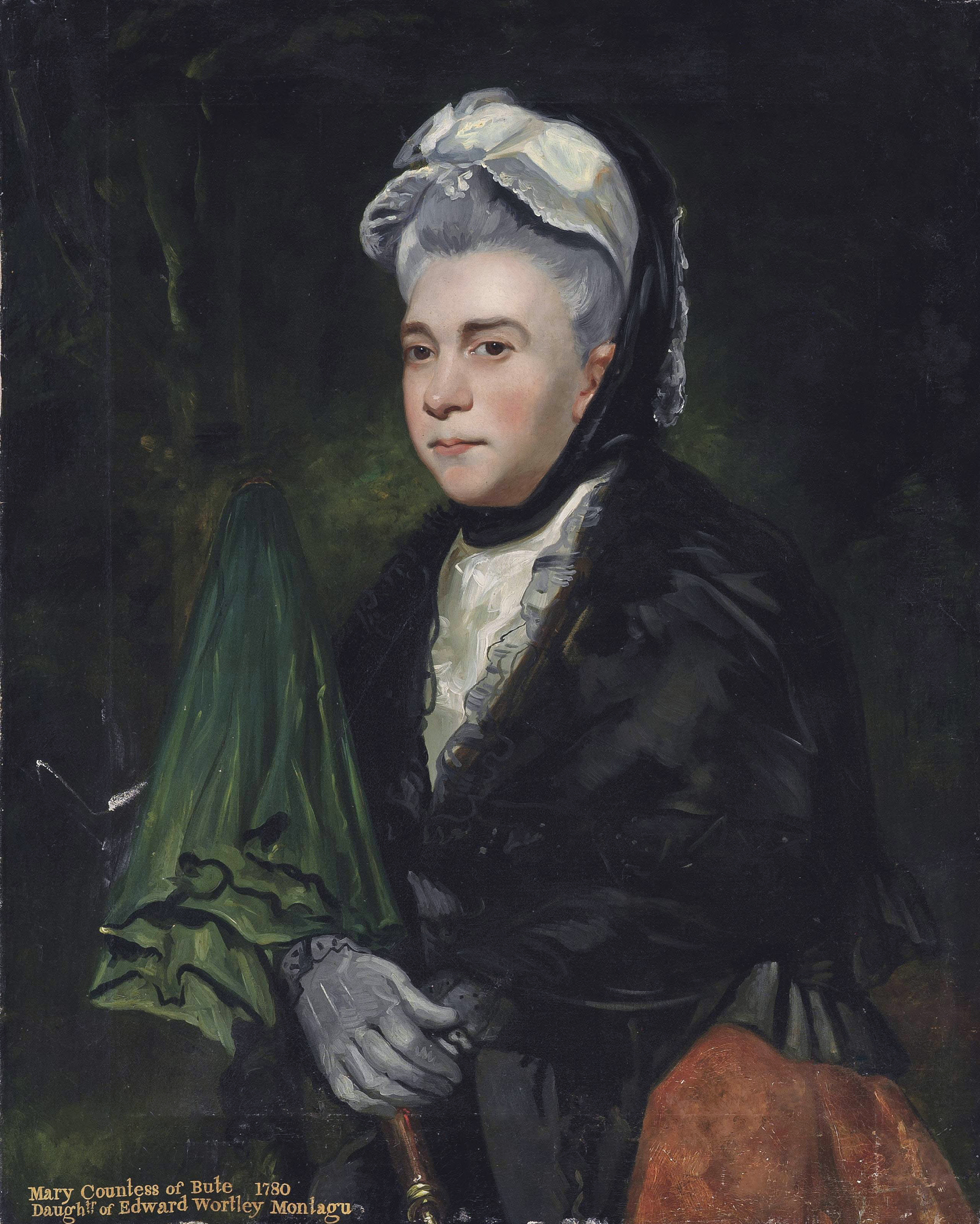 Mary Stuart (1718-1794), Countess of Bute copy after a larger original